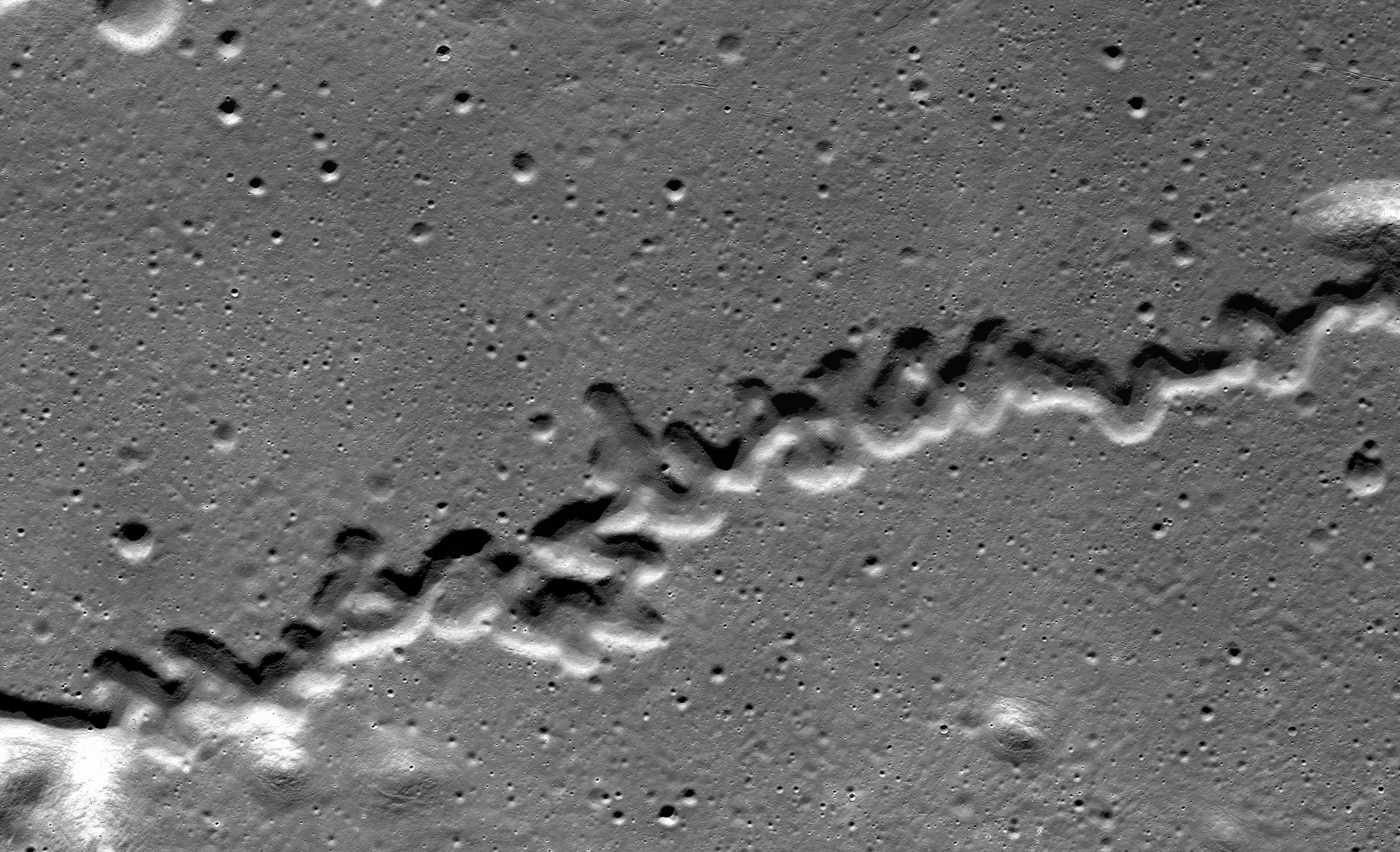 Part of Rima Posidonius II, a sinuous rille in the lunar crater Posidonius. Photo by Lunar Reconnaissance Orbiter, taken with Narrow Angle Camera (NAC) 31 December 2012 from altitude 137 km. Sun elevation is 14.9°. Size of the photo is 22×13.4 km, north is approximately at right.